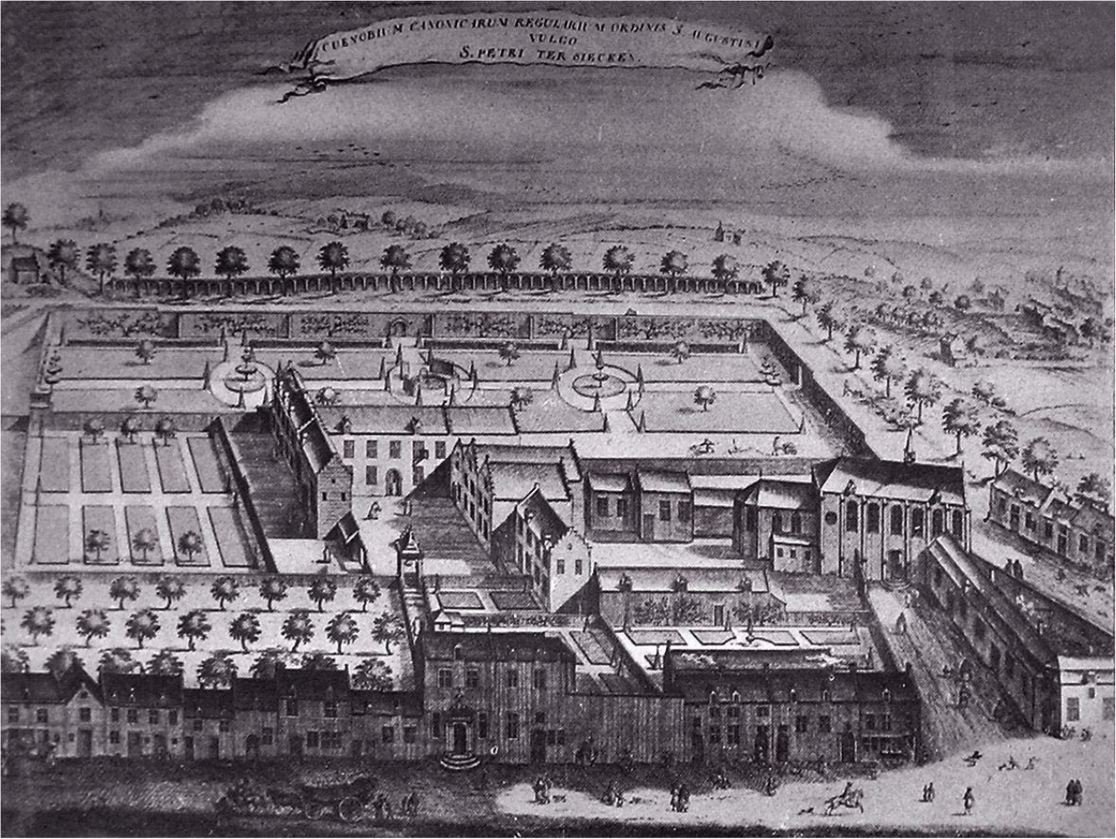 Saint Peter leprosy in Brussels, 1727. Extracted from Chorographia sacra Brabantiae.